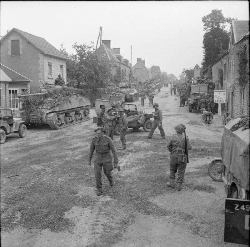 The British Army in Normandy 1944 Sherman Firefly tanks, trucks and infantry in the lieu-dit la Ferronnière during the advance to Vire, 2 August 1944.